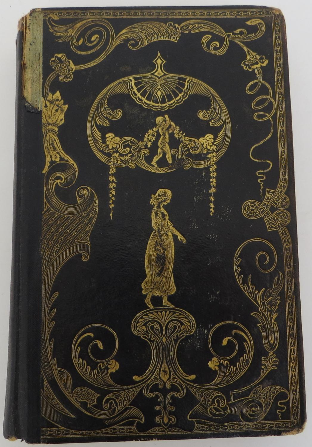 The Opal: Pure Gift for the Holy Days published by John C. Riker in New York, 1844. Edited by N.P. Willis, features "Morning on the Wissahiccon" by Edgar Allan Poe